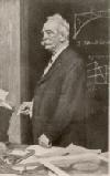 Painting of Christian Otto Mohr, German civil engineer.